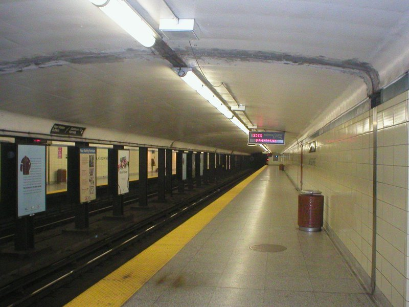 The eastbound platform of Toronto's Lansdowne subway station, looking east.